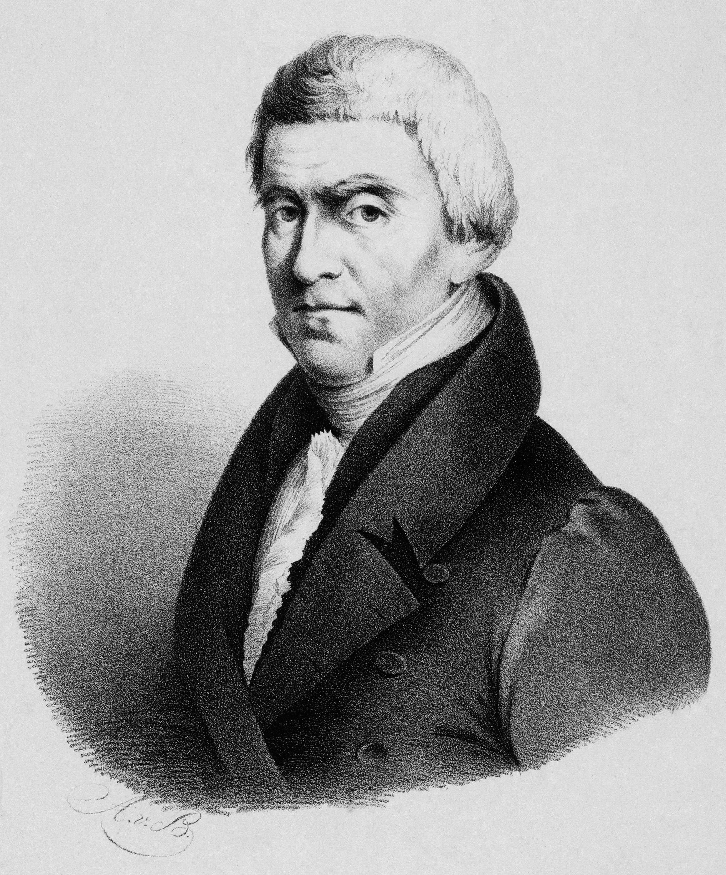 Mr. Pieter Alexander Baron van Boetzelaer (1759-1826) Burgemeester.